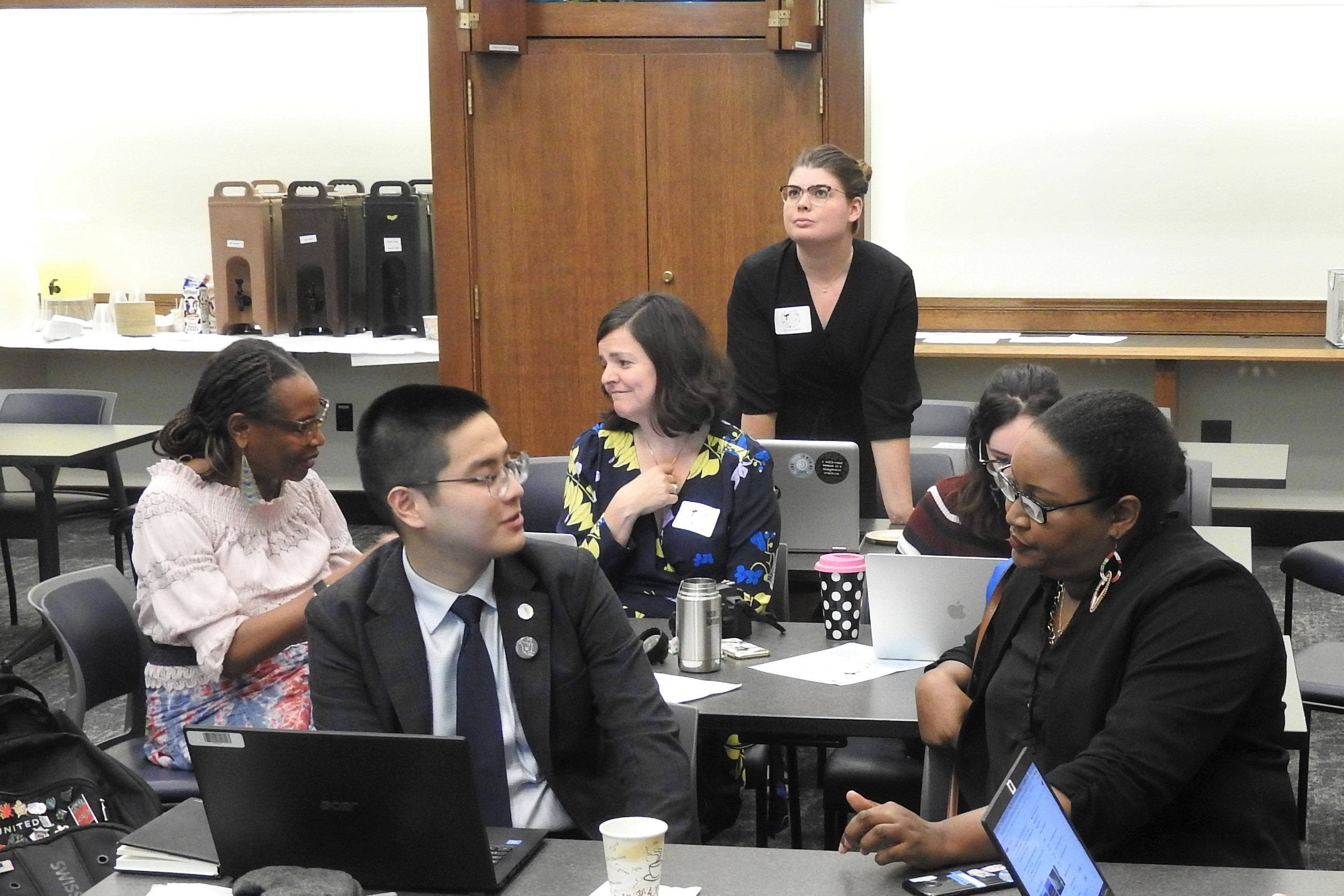 Looking south at editors discussing